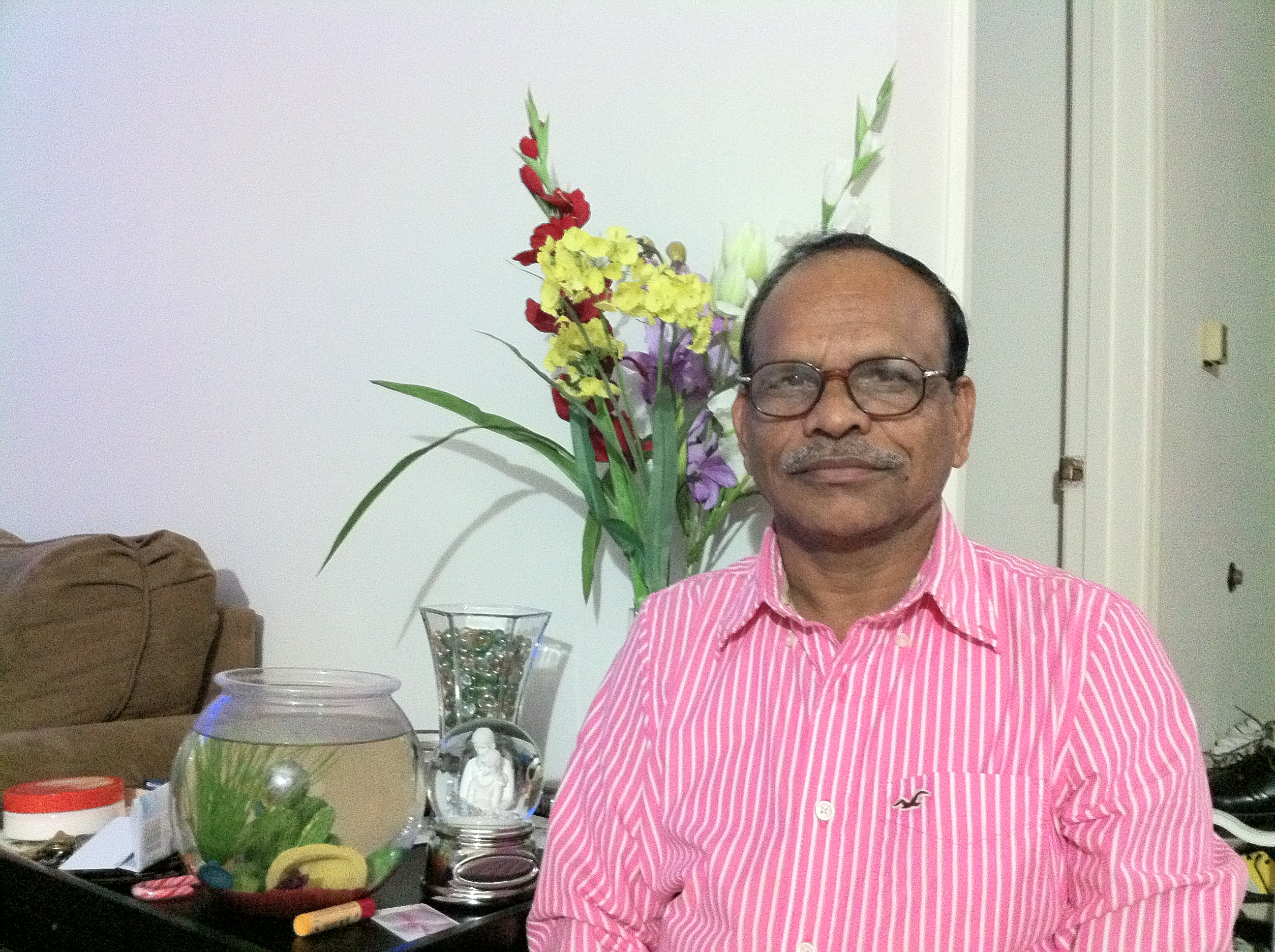 Dr. Krutibas Nayak's picture taken on Dec 23, 2010